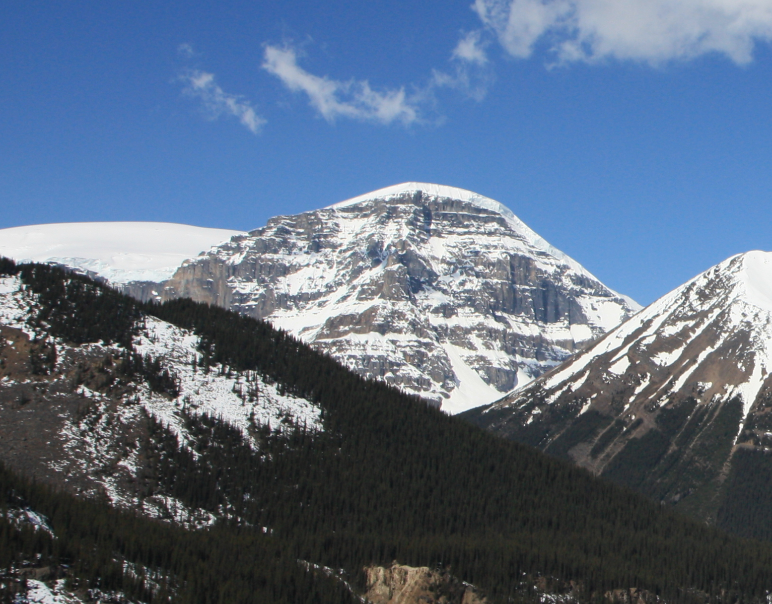 The northeast peak of Stutfield Peak. Skywalk view in Jasper Park, Canada.